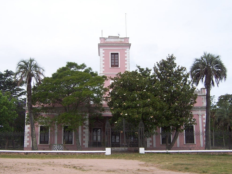 The residence of Máximo Tajes, President of Uruguay (1886 to 1890), near Cerrillos in Canelones Department, Uruguay.